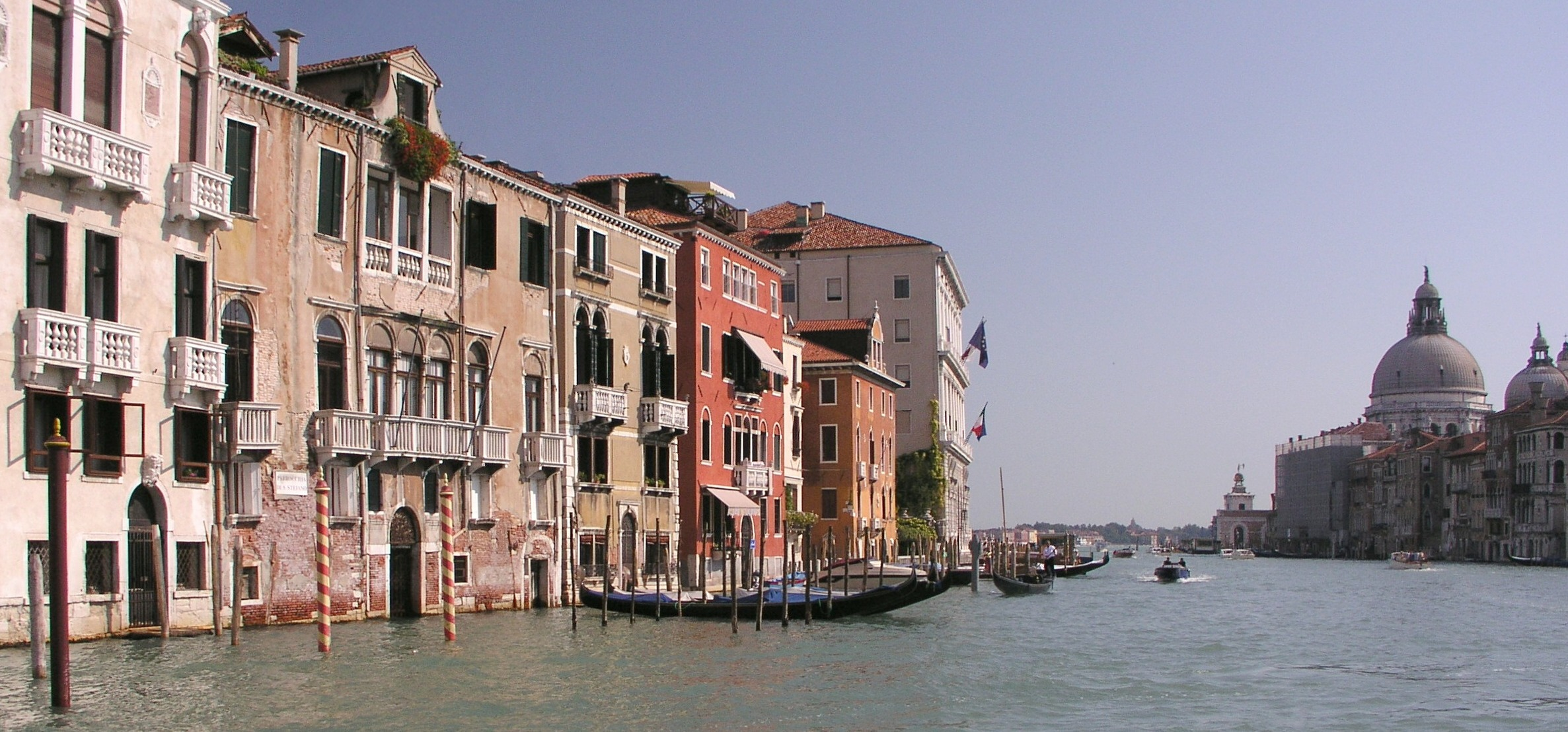 Grand Canal, southern part, Venice, Italy